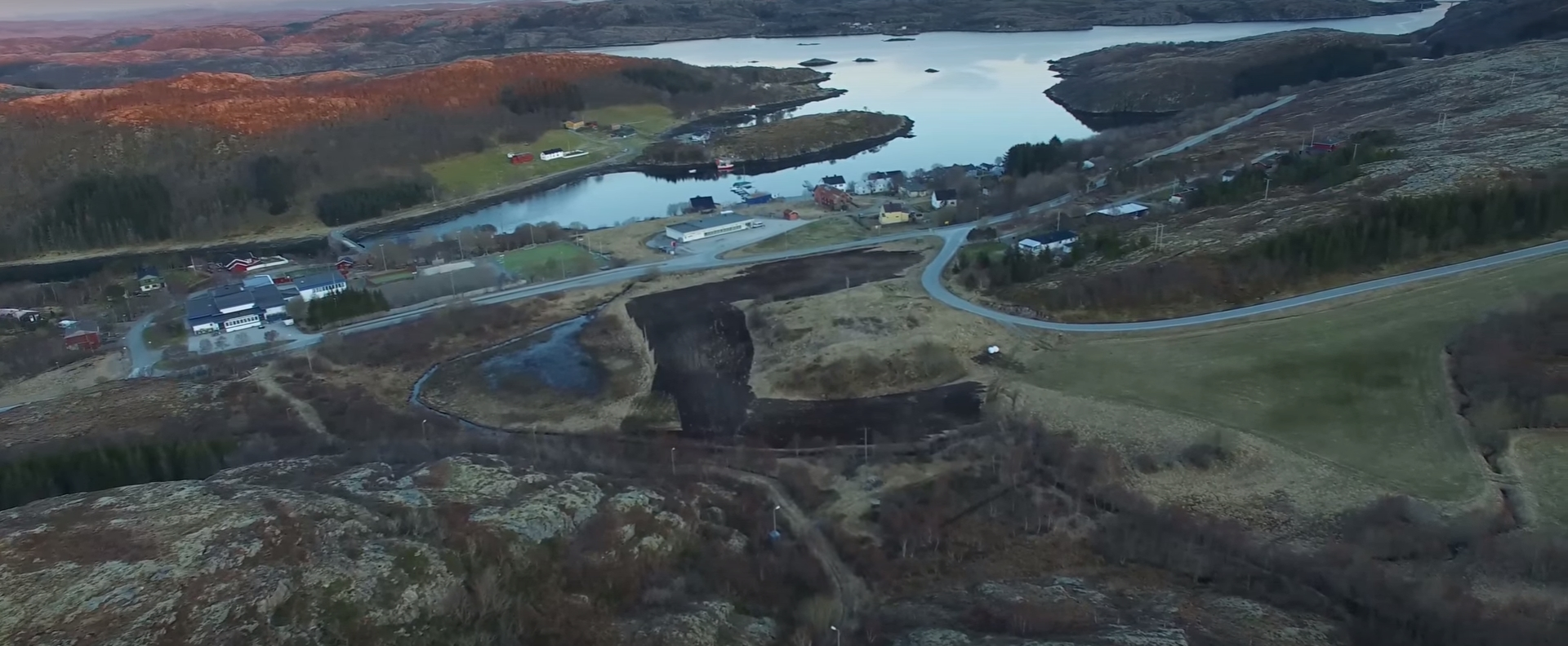 Austafjord seen from the air.